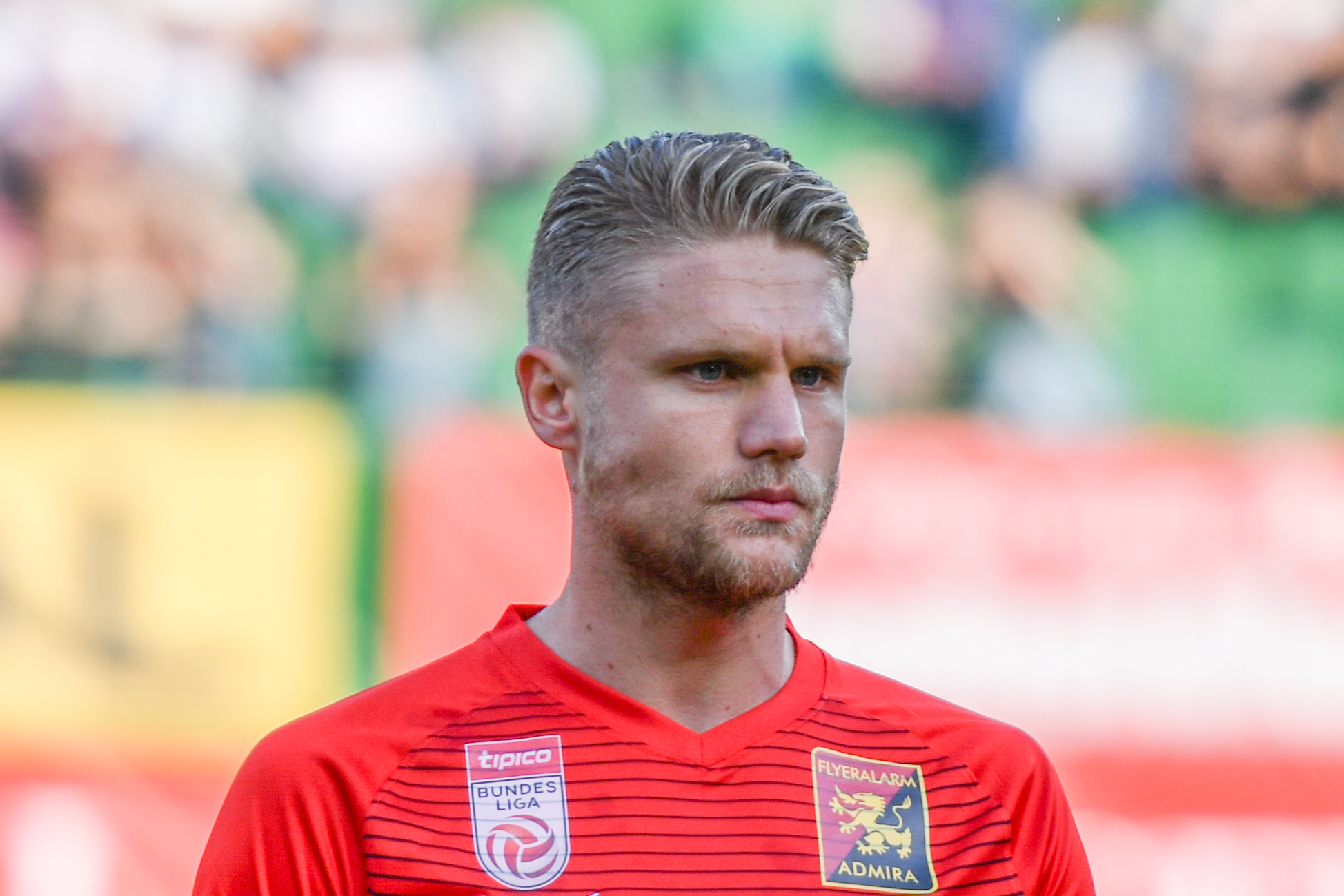 5/5/2018, Vienna, Austria, sports, soccer, Tipico Fussball Bundesliga - FK Austria Wien vs FC Flyeralarm Admira. Image shows Alexander Merkel (ADM).